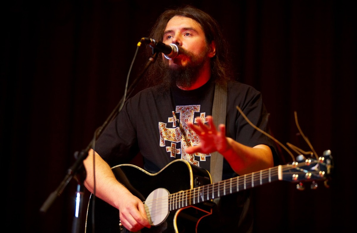 Dmitry Revyakin - Kalinov Most - concert photo - Chkalova Palace, Novosibirsk, Russia, 27 november 2007 year